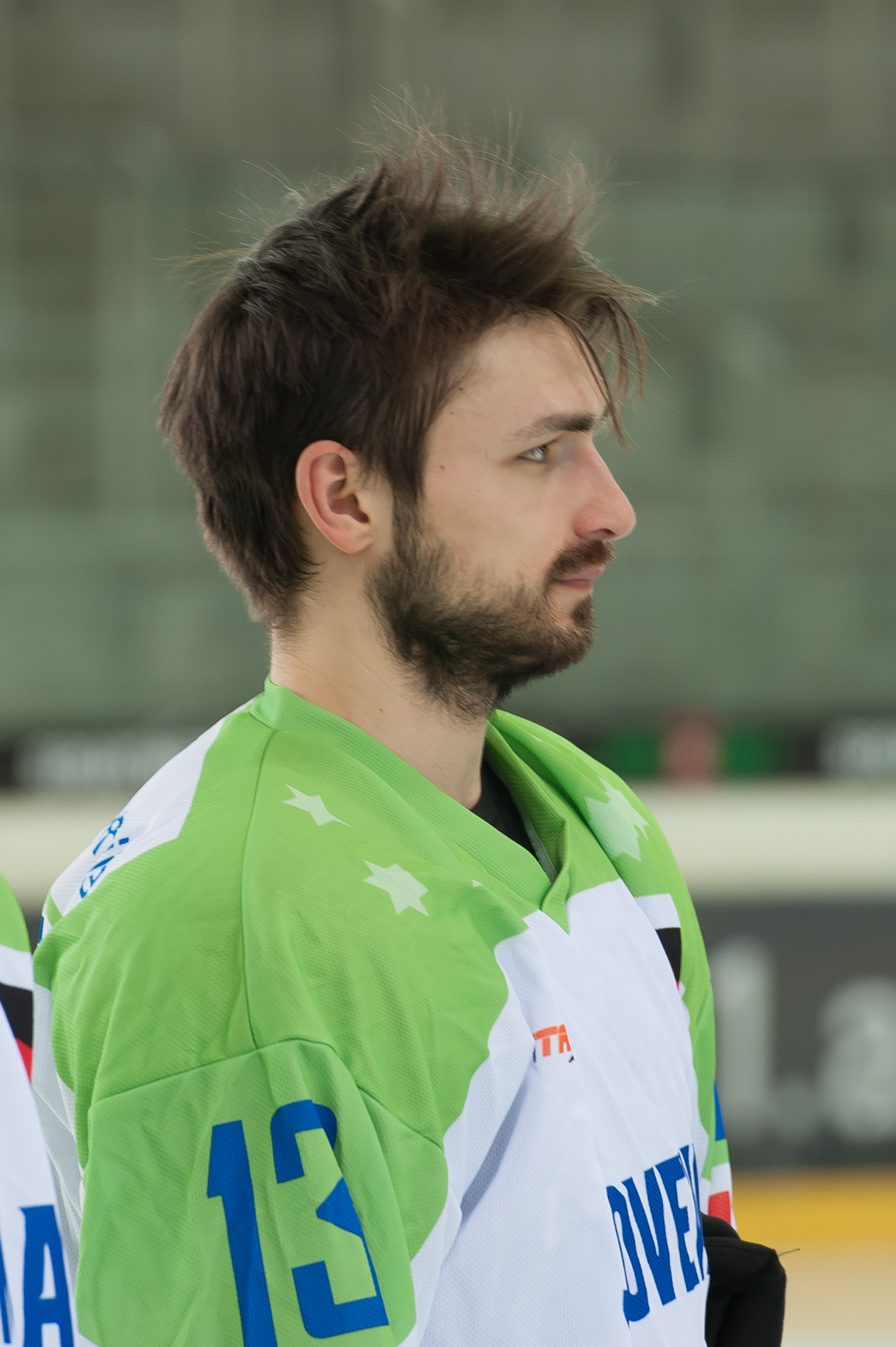 Euro Ice Hockey Challenge Vienna, February 7, 2015, Italy vs. Slovenia